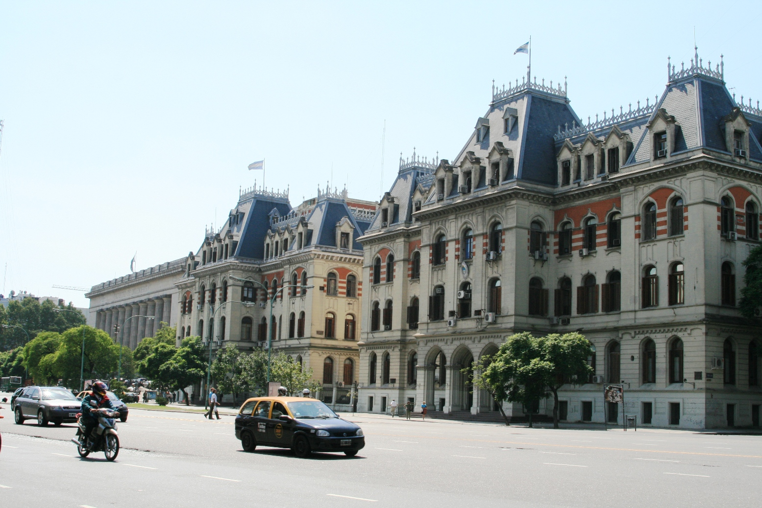 The Agriculture Secretariat, an office promoted to a cabinet-level post in 2009.